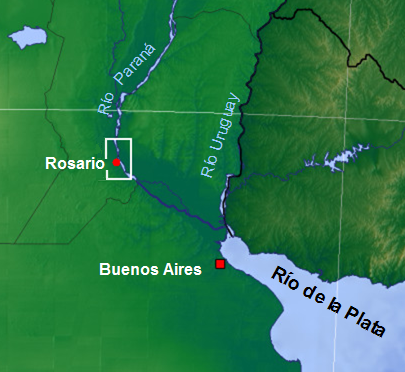 Up-River zone. Port zone over Parana River. Argentina. Provincia de Santa Fe.